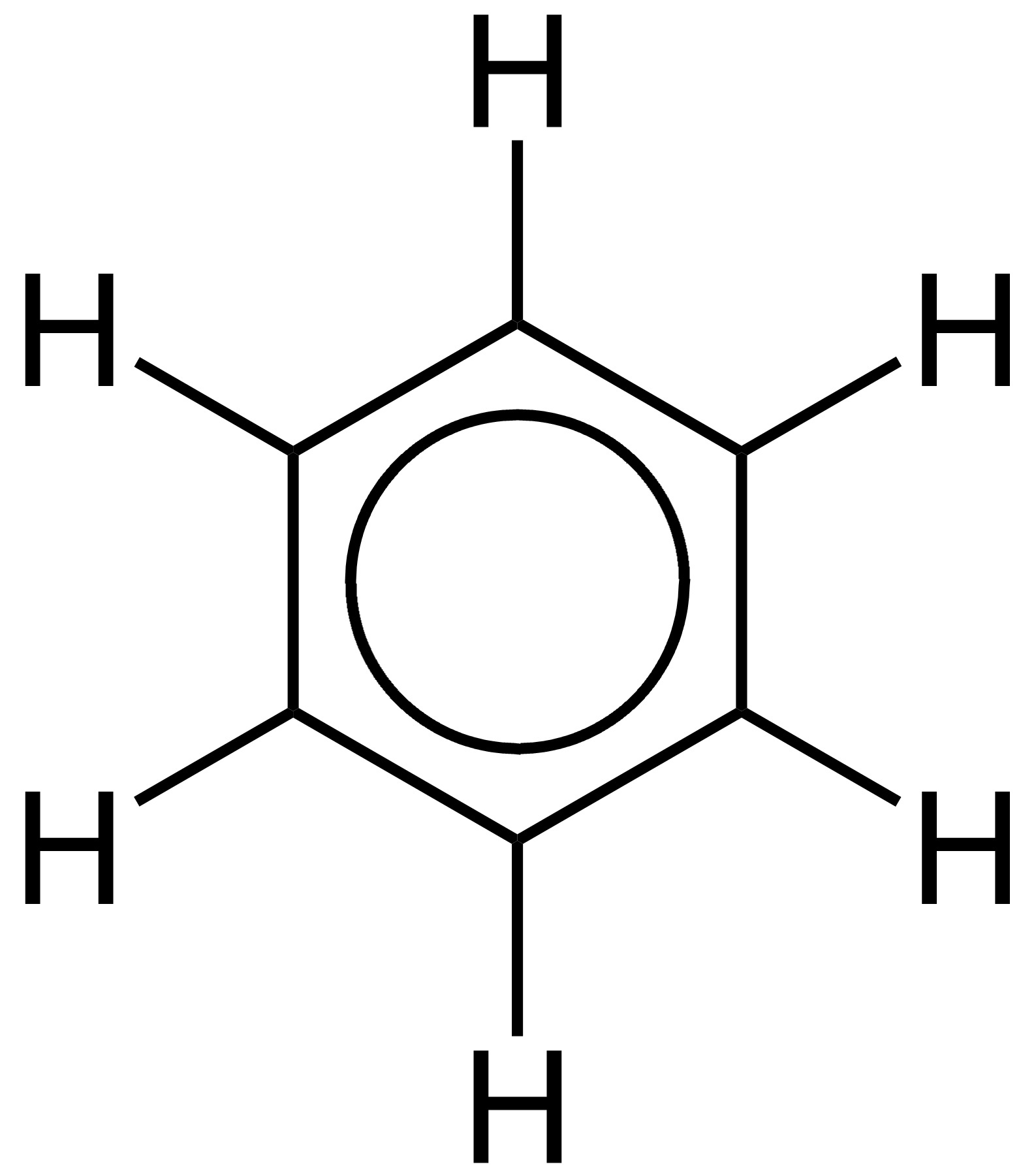 Chemical structure of benzeneOld version: Image:Benz4.png